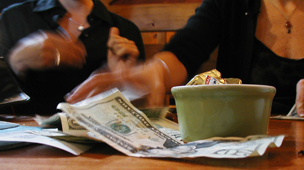 Thowing the money on the table.